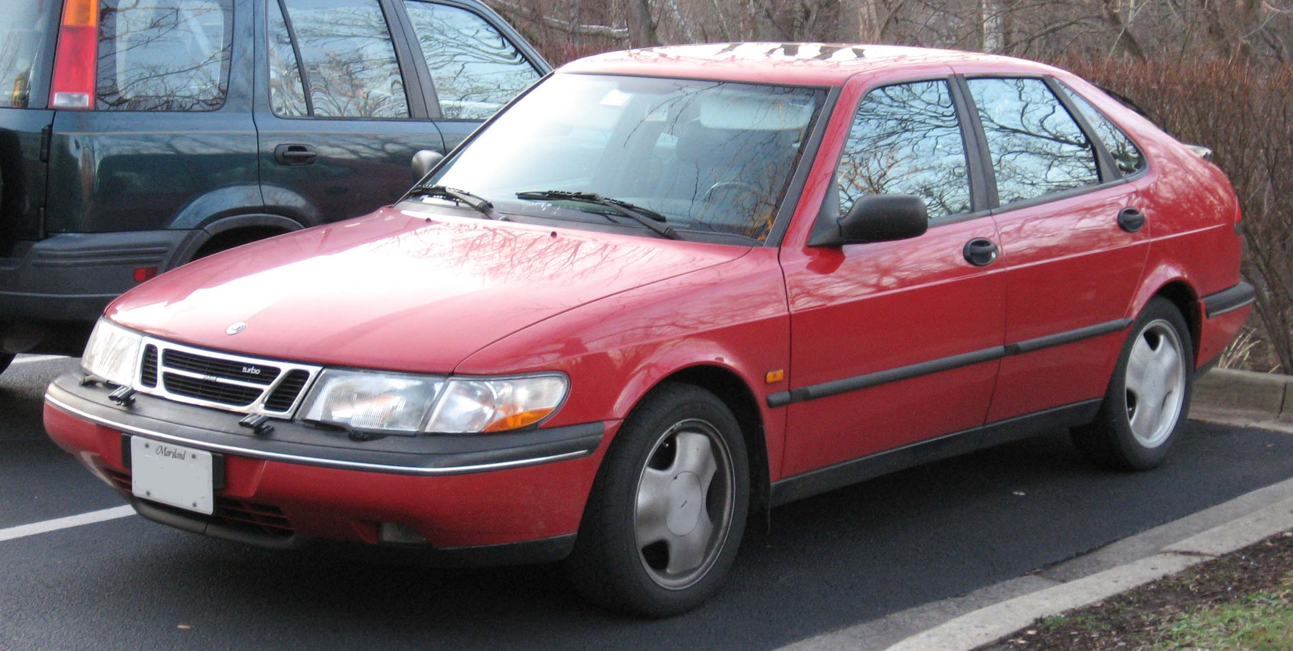 1994-1999 Saab 900 photographed in USA.